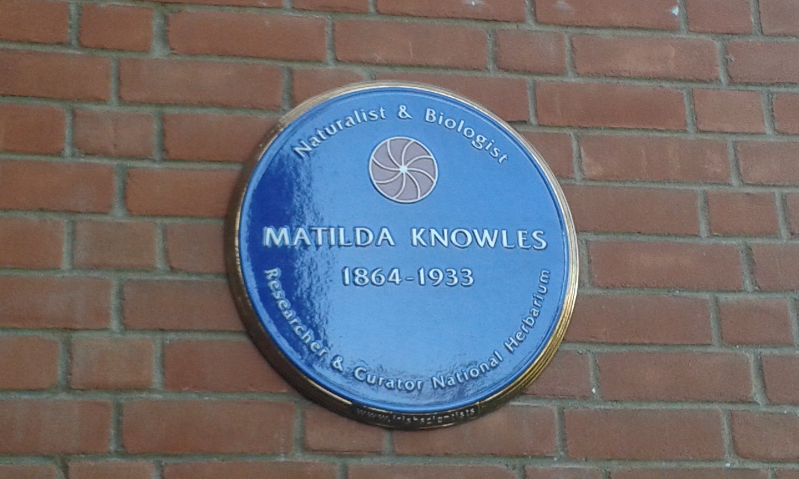 Commemorative plaque erected at the National Herbarium, National Botanic Gardens Dublin. Knowles curated the herbarium when it was at a different location